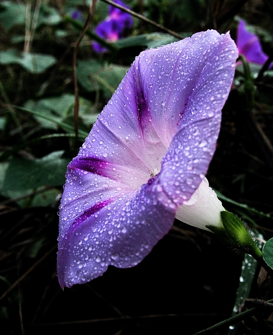 Blue Morning Glory